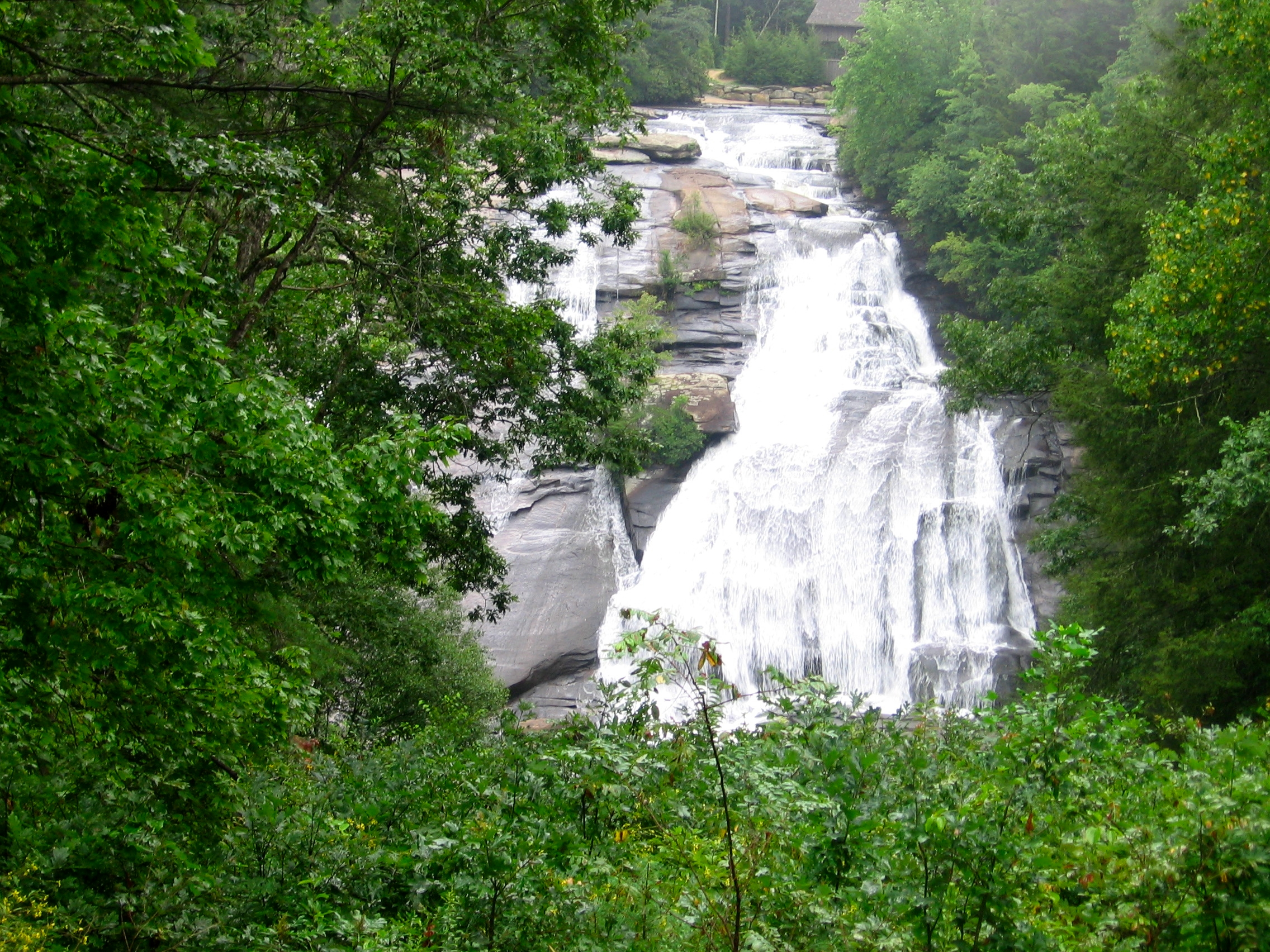 High Falls of the Davidson River in DuPont State Forest, Self-Authored, 8-11-06